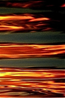 Water, somewhere in the world, fot. Elżbieta Dzikowska